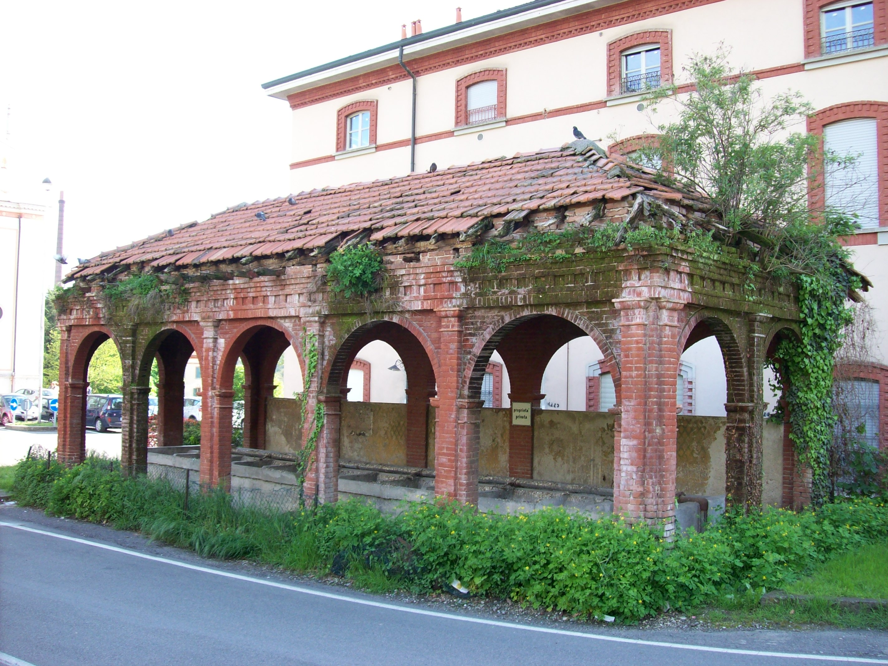 Crespi d'Adda workers' village (Capriate San Gervasio, province of Bergamo, Italy): the washing trough